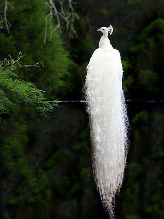 We have a beautiful,exciting and enchanting world. Nature is a beauty of hidden paradise and has provided us with wonderful gifts.